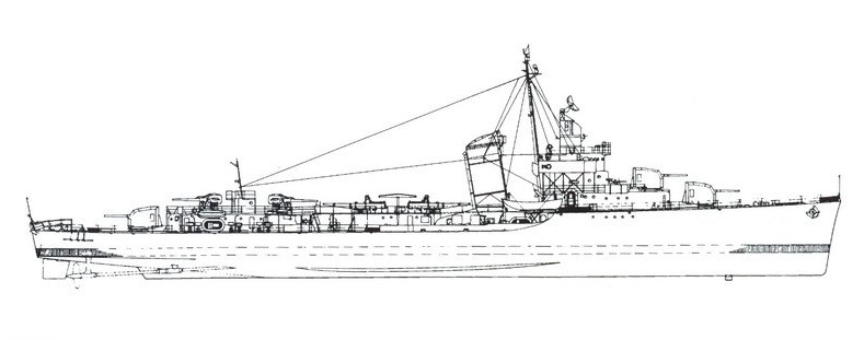 Line drawing of the U.S. Navy destroyer USS Russell (DD-414), possibly in 1941 with Mount 53 still equipped and K-guns added.